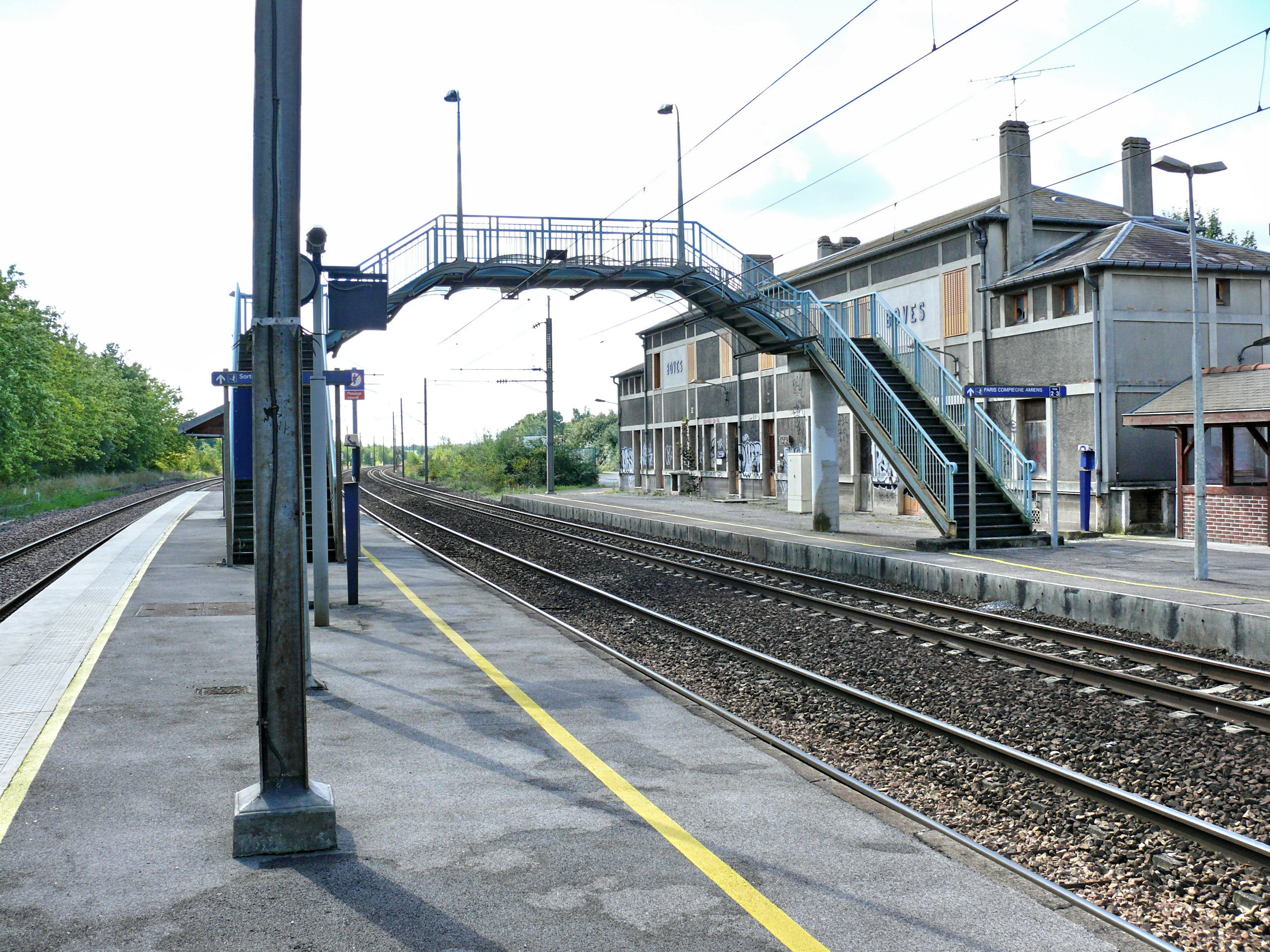 La Gare de Boves. On the right are the electrified lines from Paris - Longueau. On the left, unelectrified single track of the Compiègne - Amiens line.